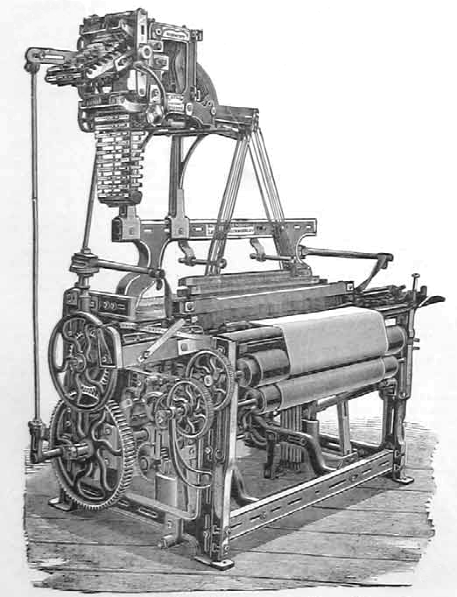 Capture from Textile Mercury, a paper published by Marsden in Manchester in 1892. [1] This UK artistic work, of which the author is unknown and cannot be ascertained by reasonable enquiry, is in the public domain because it is one of the following: A photograph, which has never previously been made available to the public (e.g. by publication or display at an exhibition) and which was taken more than 70 years ago (before 1st January 1943); or A photograph, which was made available to the public (e.g. by publication or display at an exhibition) more than 70 years ago (before 1 January 1943); or An artistic work other than a photograph (e.g. a painting), which was made available to the public (e.g. by publication or display at an exhibition) more than 70 years ago (before 1 January 1943). This tag can be used only when the author cannot be ascertained by reasonable enquiry. If you wish to rely on it, please specify in the image description the research you have carried out to find who the author was. The above is all subject to any overriding Publication right which may exist. In practice, Publication right will often override the first of the bullet points listed. Unpublished anonymous paintings remain in copyright until at least 1 January 2040. This tag does not apply to engravings or musical works. More information. You must also include a United States public domain tag to indicate why this work is in the public domain in the United States. This work is in the public domain in the United States because it was published (or registered with the U.S. Copyright Office) before January 1, 1923. Public domain works must be out of copyright in both the United States and in the source country of the work in order to be hosted on the Commons. If the work is not a U.S. work, the file must have an additional copyright tag indicating the copyright status in the source country.